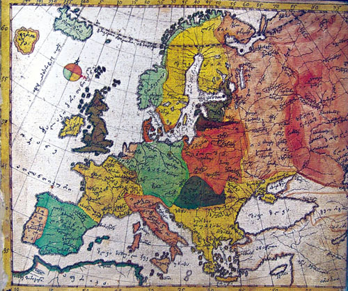 The map "Europe" (ევროპა) by VAKHUSHTI BAGRATIONI (ვახუშტი ბაგრატიონი), from the world atlas issued in 1752.